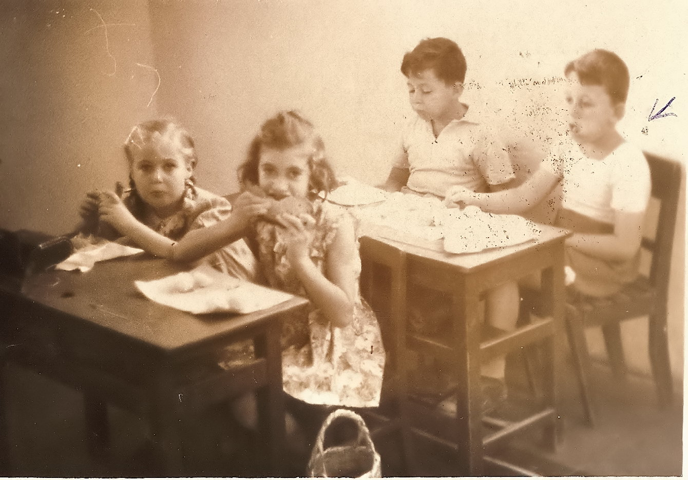 Education in Israel